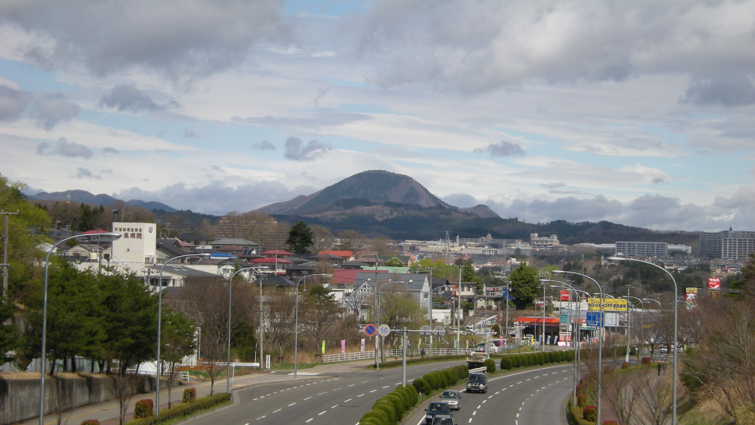 Mt. Sasakurayama, that is the highest mountain of Nanatsumori mountains group in Taiwa-cho, Miyagi prefecture, Japan. Taken from the pedestrian bridge between Kamo and Choumeigaoka in Sendai city.